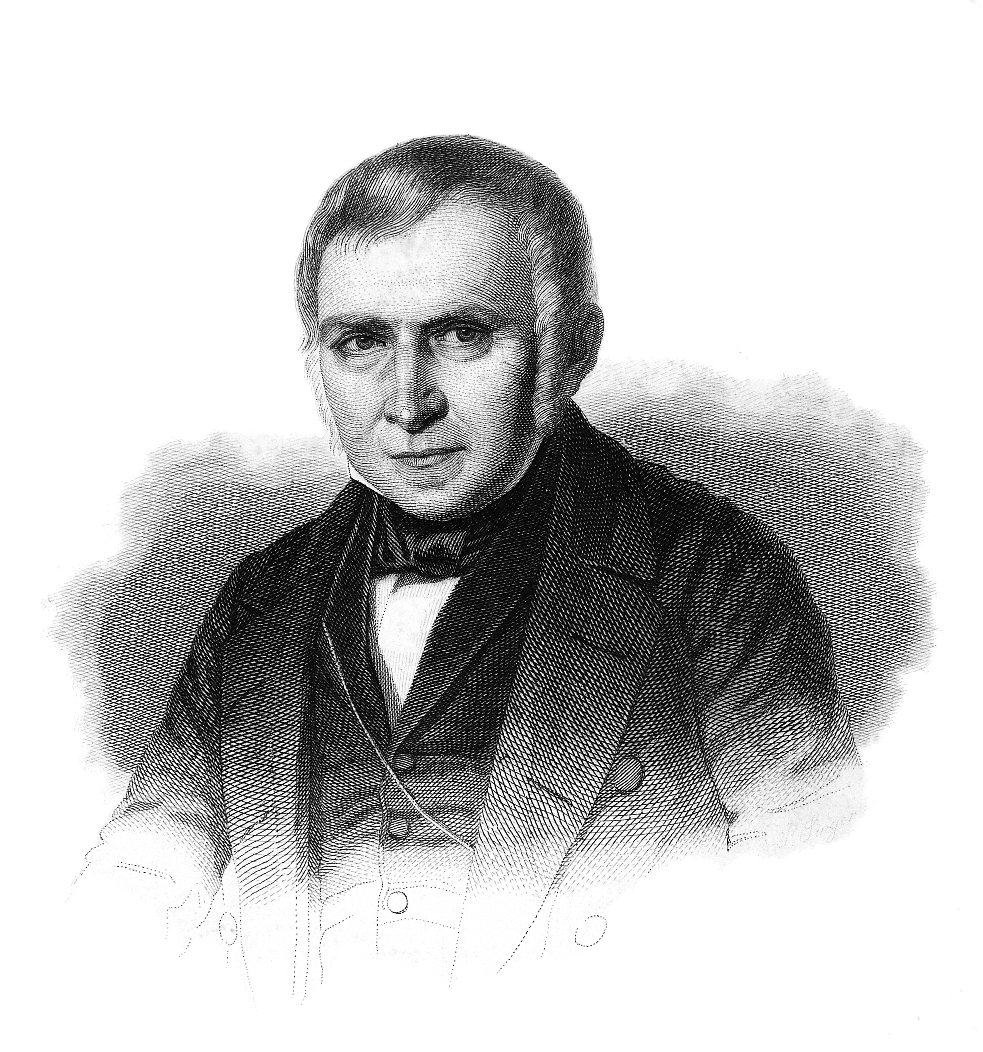 Christian Gottfried Ehrenberg (1795-1876) Iconographic Collections Keywords: Christian Gottfried Ehrenberg